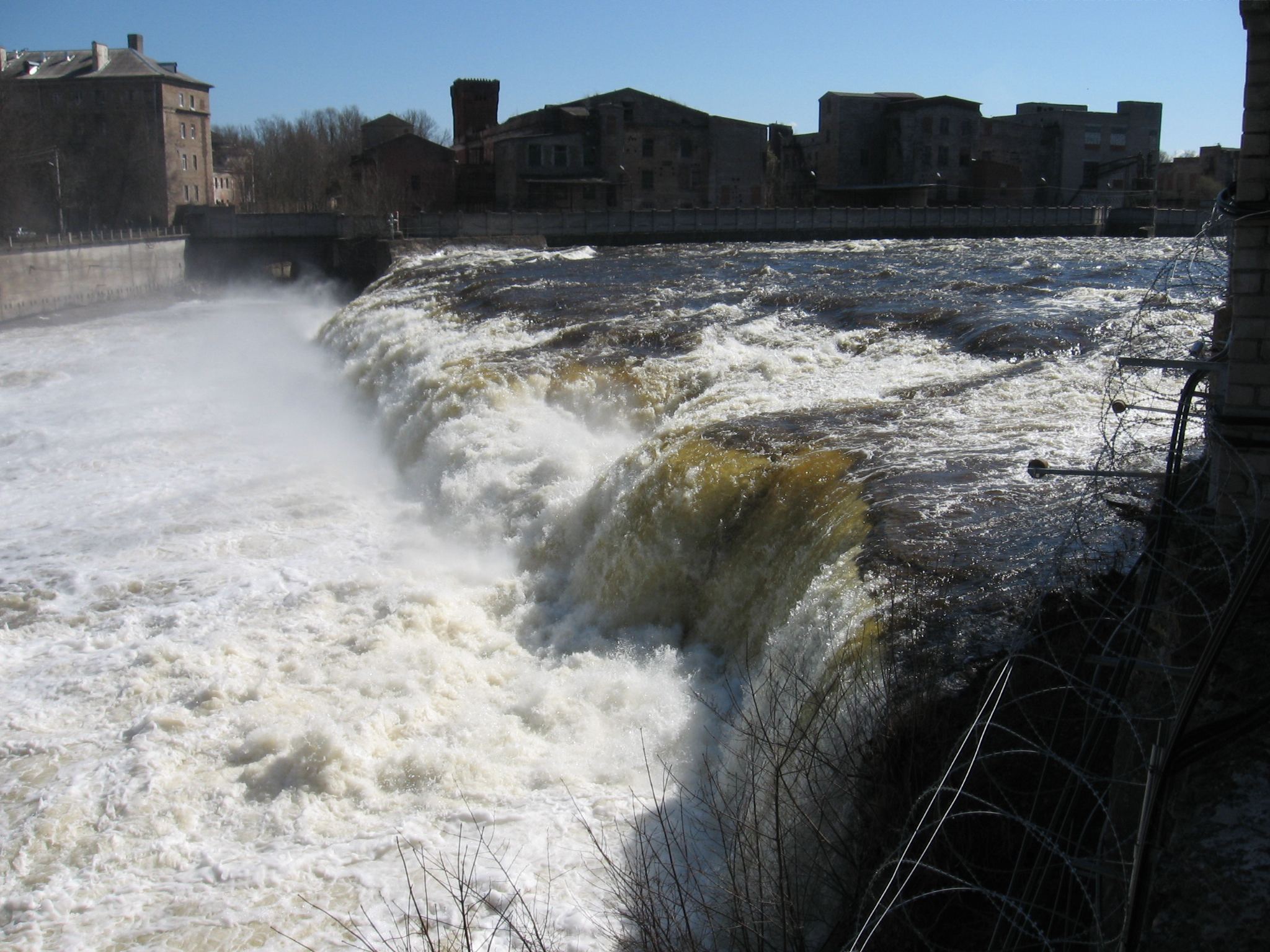 Narva Waterfall (east part)